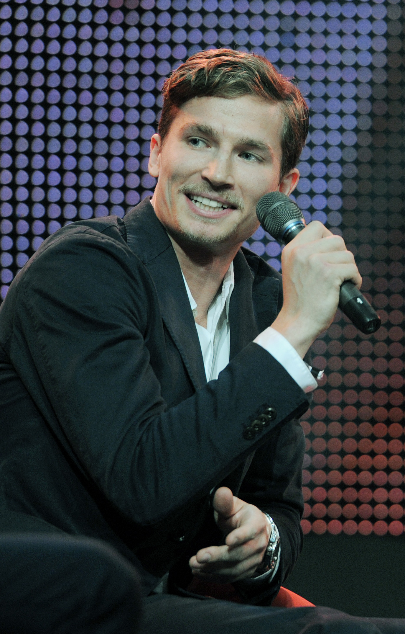 Davos, 03.10.2014. Sport, 12. Internationale Sportnacht Davos 2014. Snowboard-Olympiasieger Iouri Podlatchikov.. Copyright by: foto-net / Kurt Schorrer